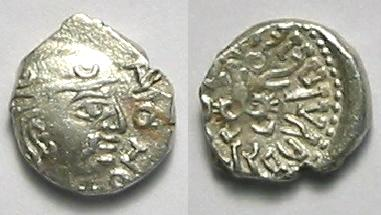 Coin of the Gupta king Kumara Gupta I. Obv: Bust of King Kumarđfàta with headband decorated with crescents. Pseudo-Greek legend (imitative of Indo-Greak ấdfoinage through the Western Kshatrapa). Rev: Garuda bird, circled by legend in Brahmi "Parama-bhagavata rajahiraja Sri Kumaragupta Mahendraditya". Actual size: 14mm in diameter, 2.0g.áđfấđfà áđfấđfấdf